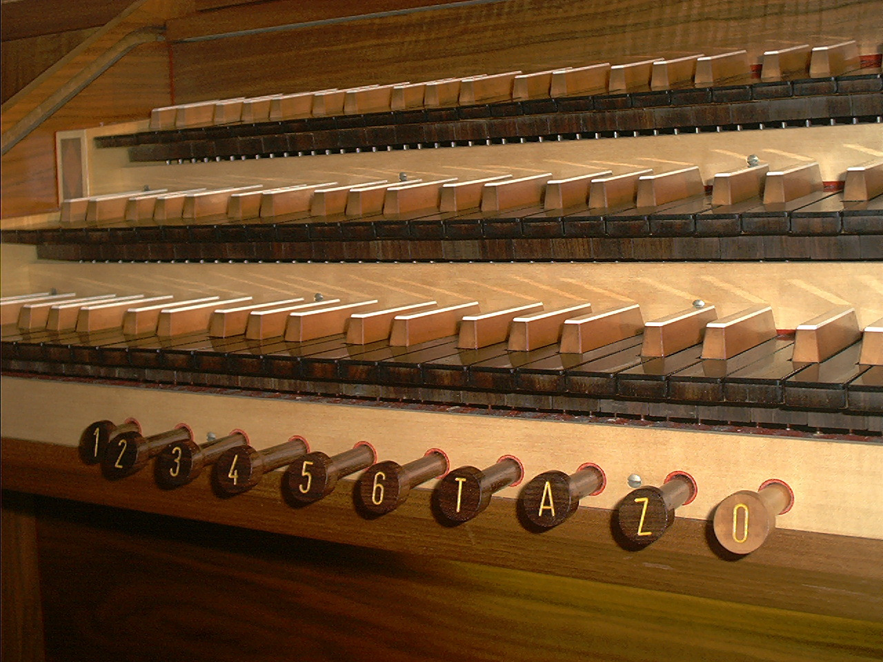 Free combination (pipe organ); “Pushbuttons for the combinations on the pipe organ console”